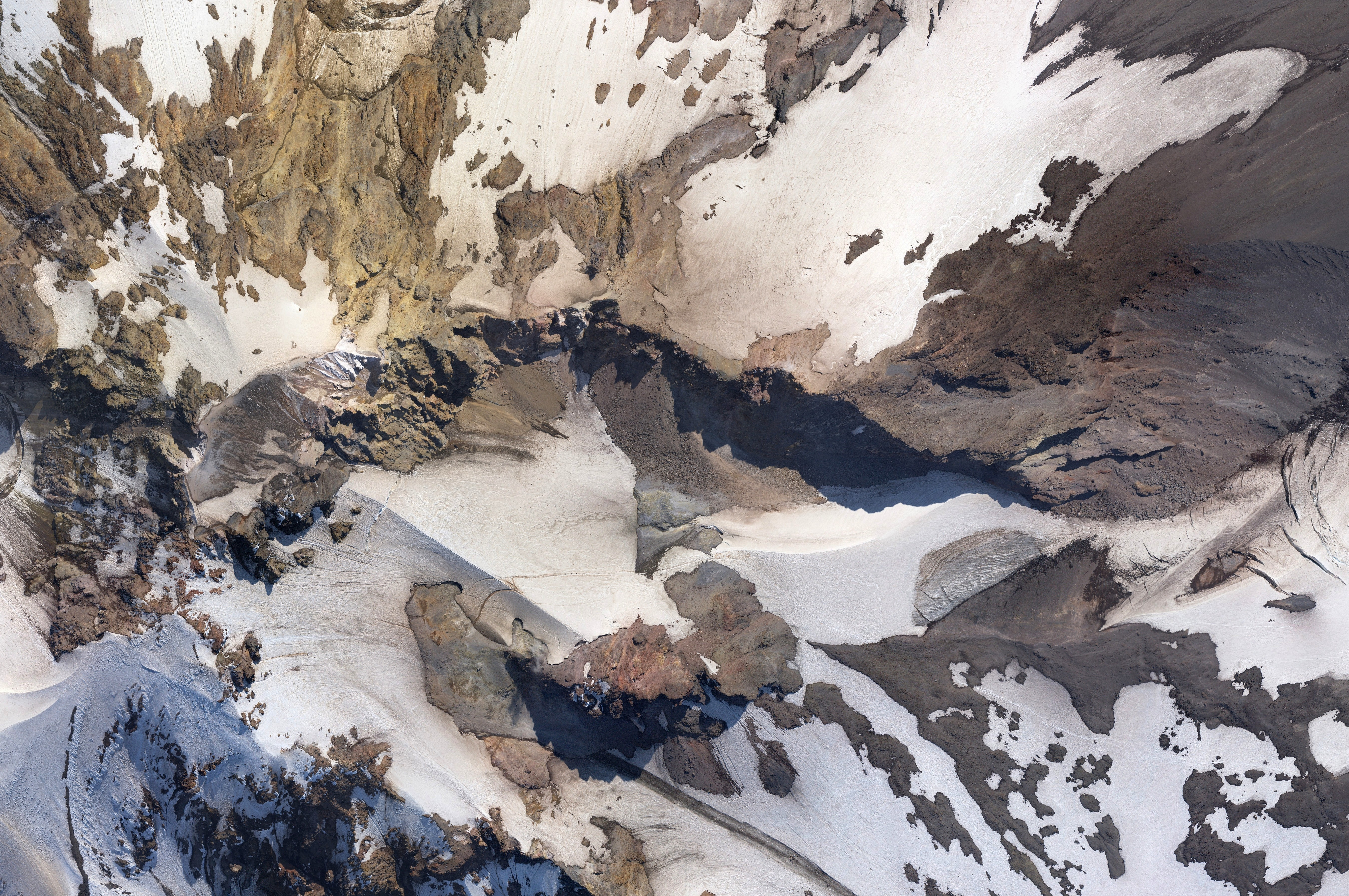 This is a panorama centered on the crater of Mt Hood in Oregon, showing the peak, sides, crazy rock formations, rocks fallen onto snow, the origins of rivers, volcanic activity, crevasses, the bergschrund on Coalman Glacier which has killed a few people, climbers, evidence of very risky snowboarding, and other interesting bits. North is left, camera elevation is more or less 4100 meters, compare to the summit which is 3429 meters. Panorama built out of 29 photos which were taken by airplane on 12 July 2009 around 17:45. I work for the company which does this in Portland and decided to build this image while waiting for some computations to finish. The 29 photos were picked out of about 10000 (yeah... pretty much the whole south side was photographed several times). Pre-crop panorama shows the top of the Palmer glacier with skiers all over it. Permission was given to put the image here. Again, photos not taken by me (taken automatically by a rig consisting of four computer controlled cameras, mind you). I did raw conversion with Raw Therapee and panorama assembly with Hugin. All manual, yay! Since the cameras move during photography and the mountain is by definition not flat, there is parallax and thus this image is not seamless. I've tried my hardest to hide errors but some parts of the image mismatch by as much as 425 pixels (though average is 16). I don't know how high the plane flew, but I do know that we've skimped on photographing our local mountain before because the peak isn't much lower than the plane's altitude (since the plane takes pictures moving, panoramas turn out the best when taken as far away from ground as possible). Missing from EXIF: Photos taken with ISO 800, 1/8000 s, f/5. 85 mm lens. Due to noise, I half sized images before loading into Hugin and less then half sized the 40 MB output for upload. If you're a prospective climber, avert your eyes. It's more fun when you don't know, believe me!